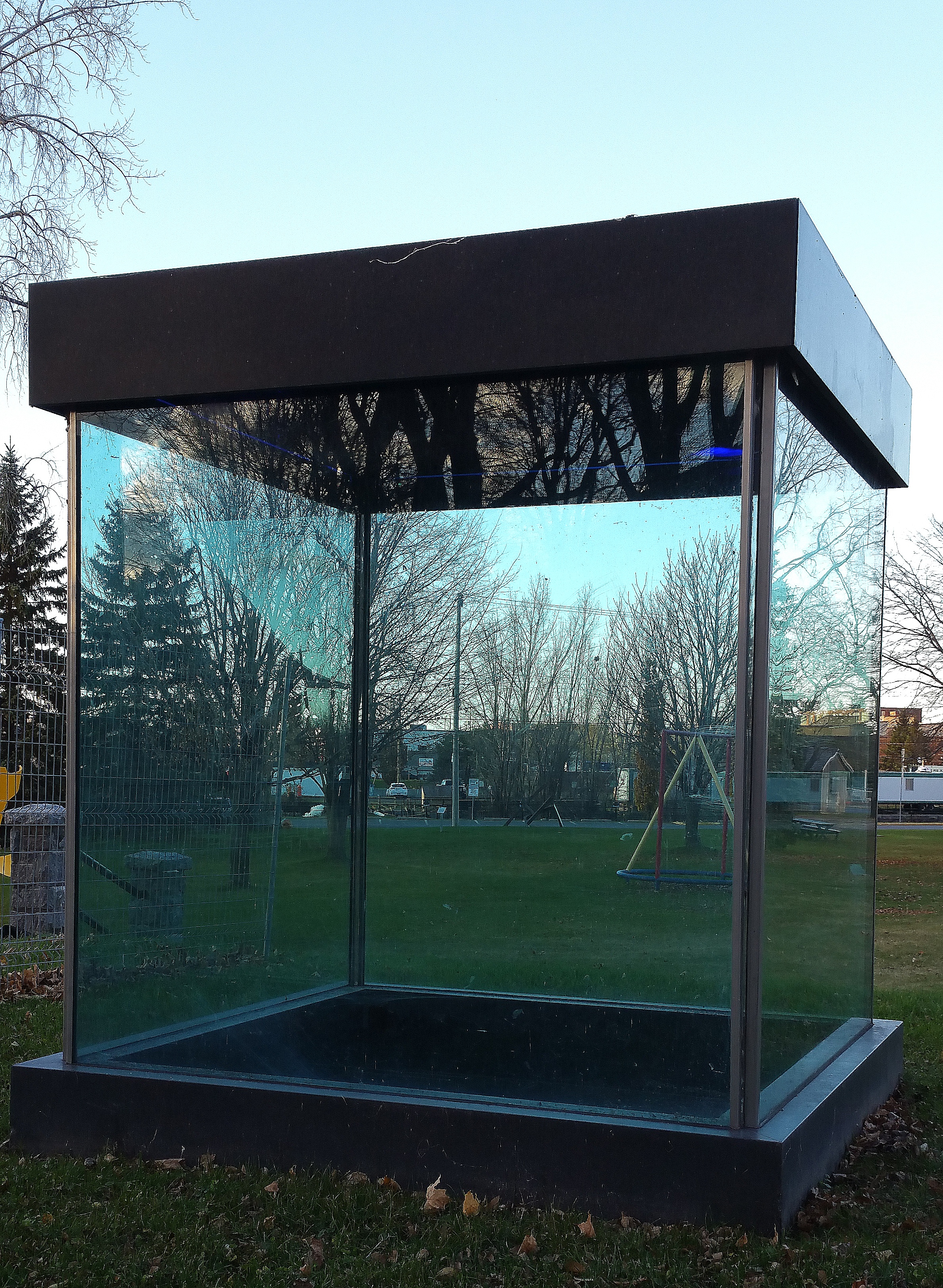 Sculpture's Garden, Lachine Museum, Montreal, Quebec. "Situated in the immediate vicinity of the Musée de Lachine and near the canal, Espace cubique ou hommage à Malevitch is a cube formed of four glass panels, a granite base, and a steel plate on top. The space thus enclosed is illuminated by neon lights and cobalt-coloured spotlights. As its title indicates, the cubic sculpture is a tribute to the suprematist painter Kasimir Malevich. Like other works by Fournelle, Requiem pour un fluide noir – Hommage à Kasimir Malevitch (2000) and Icône (2002), the artist here uses the form of the square, considered the purest geometric figure in suprematist art, to inscribe an affiliation between his work and Malevich’s thought."